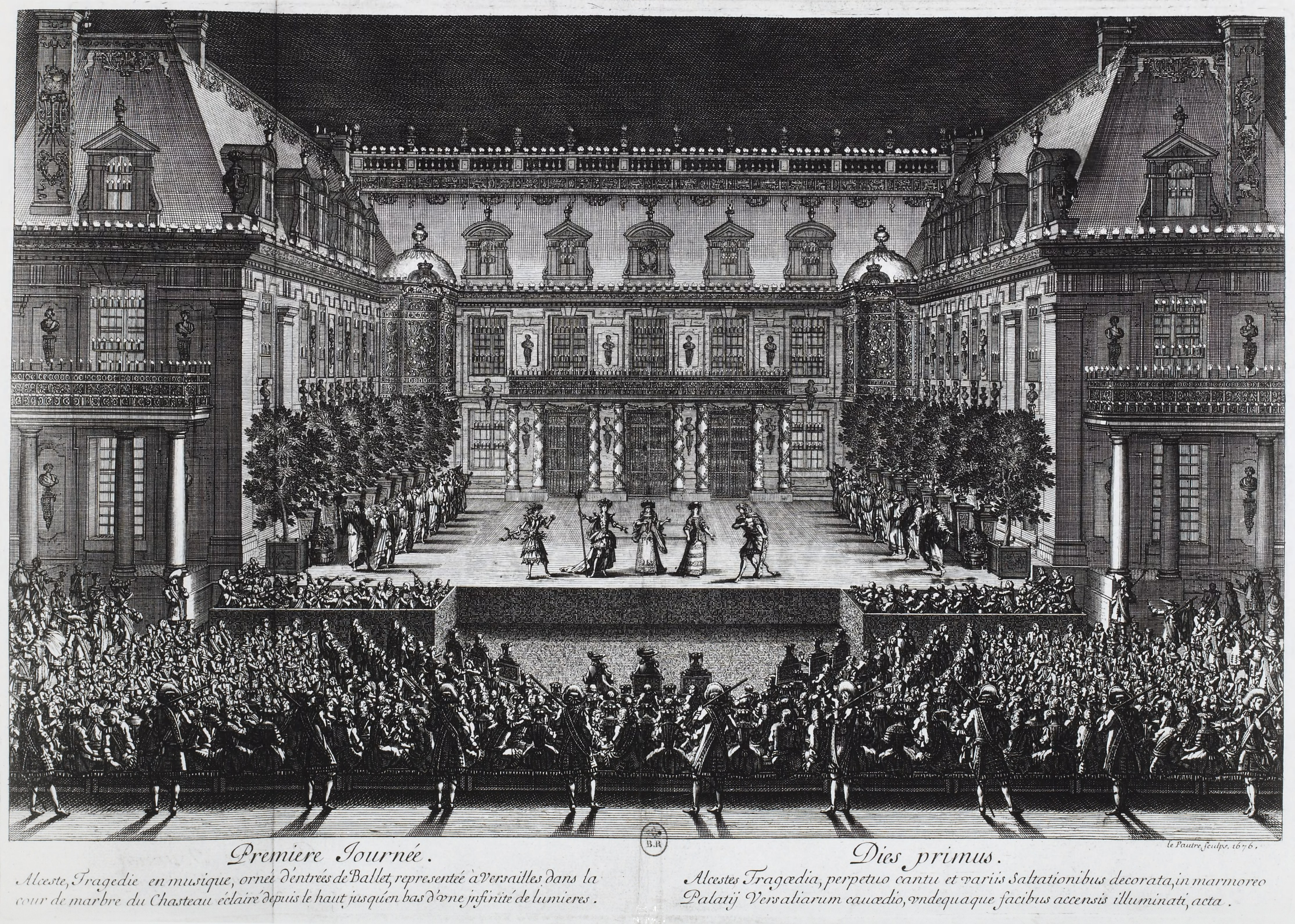 Performance of Lully's opera Alceste ("ornamented with ballet entrées") in the Marble Court at Versailles on 4 July 1674, the first day (Premiere Journée) of the grand divertissement ordered by Louis XIV to celebrate his recent victories in Franche-Comté